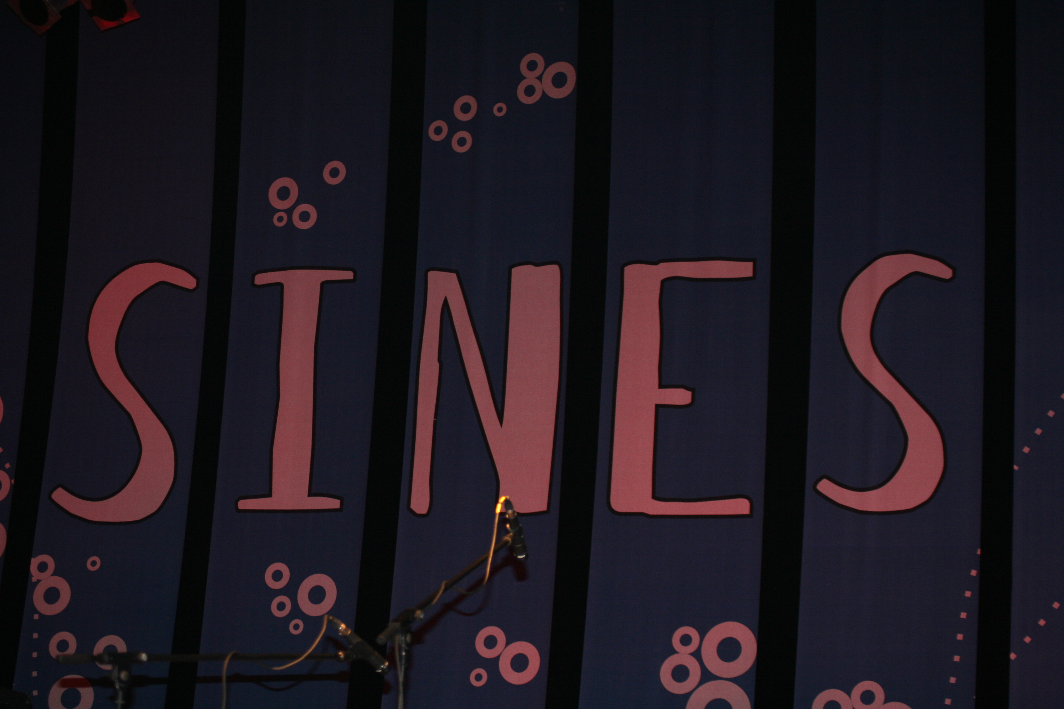 Festival das Musica do Mundo in Sines Portugal 2008